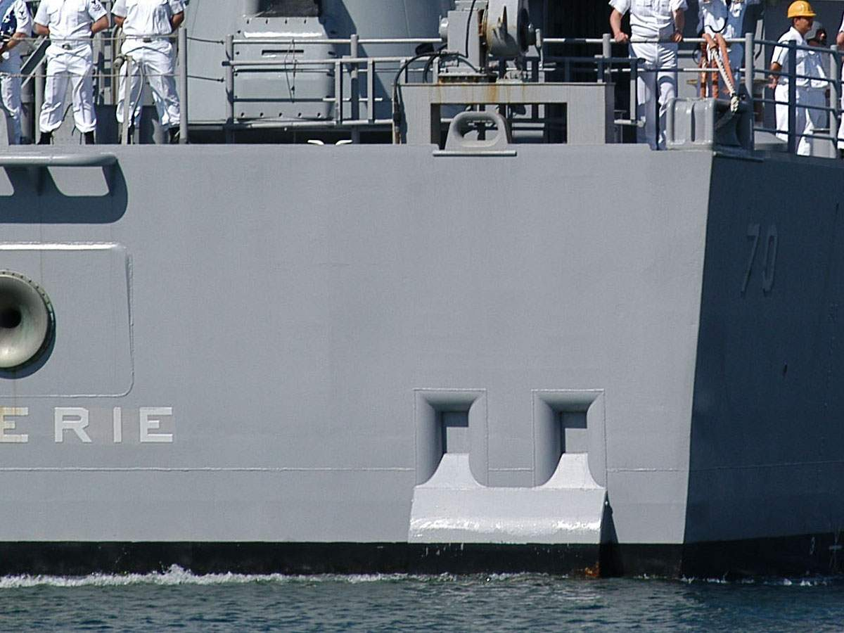 041218-N-8157C-039 Pearl Harbor, Hawaii (Dec. 18, 2004) - The guided-missile cruiser USS Lake Erie (CG 70), and her crew of more than 400 Sailors, Commanded by Capt. Joseph A. Horn, Jr., returns to Pearl Harbor after a four-month deployment to the Western Pacific in support of the Global War on Terrorism. U.S. Navy photo by Photographer's Mate 2nd Class Dennis C. Cantrell (RELEASED)